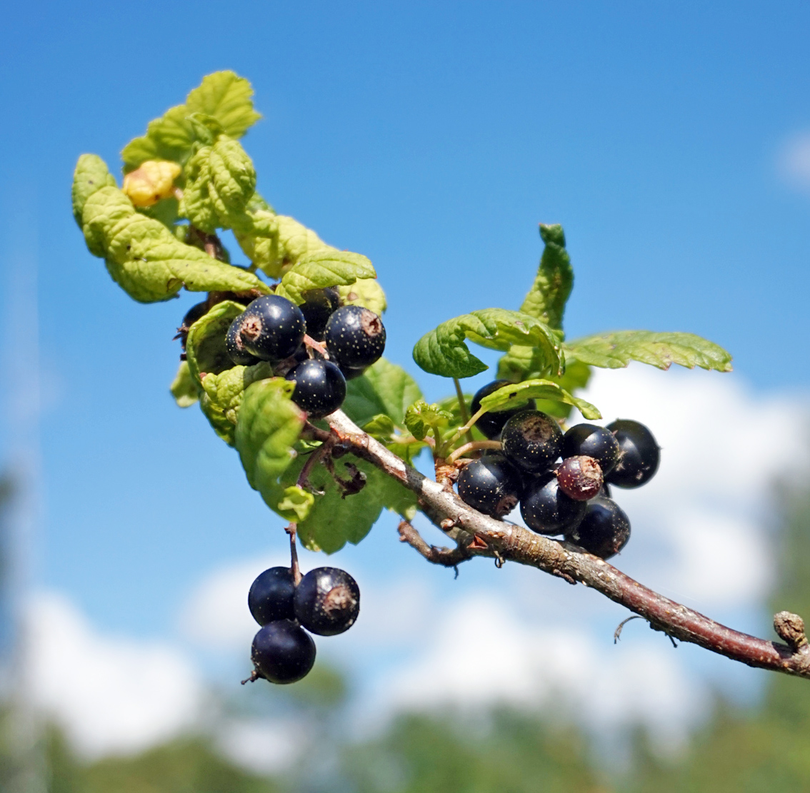 Blackcurrant (Ribes nigrum) in Jyväskylä, Finland.